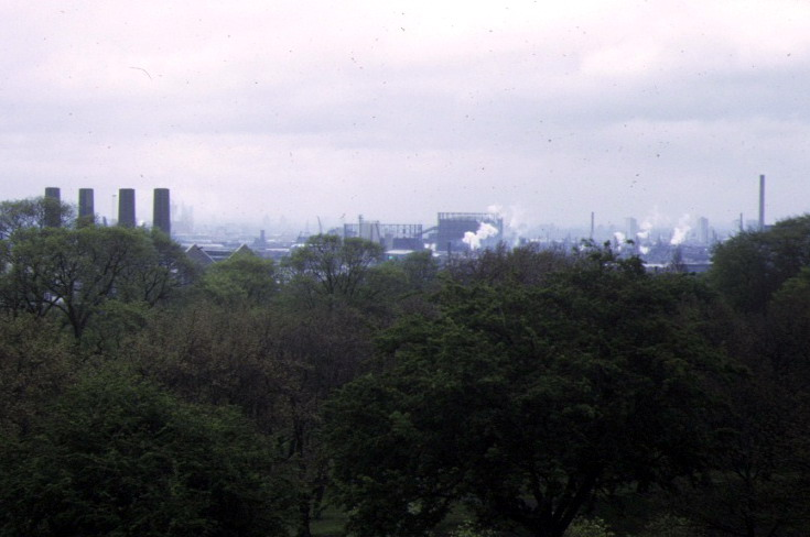 Greenwich Peninsula glimpsed from the SW in Greenwich Park, 1973. Greenwich Power Station chimneys left, East Greenwich Gasworks centre, Blackwall Point Power Station right. The keen-eyed can make out the chimneys of Brunswick Wharf and West Ham PSs in the gloom behind Greenwich PS.